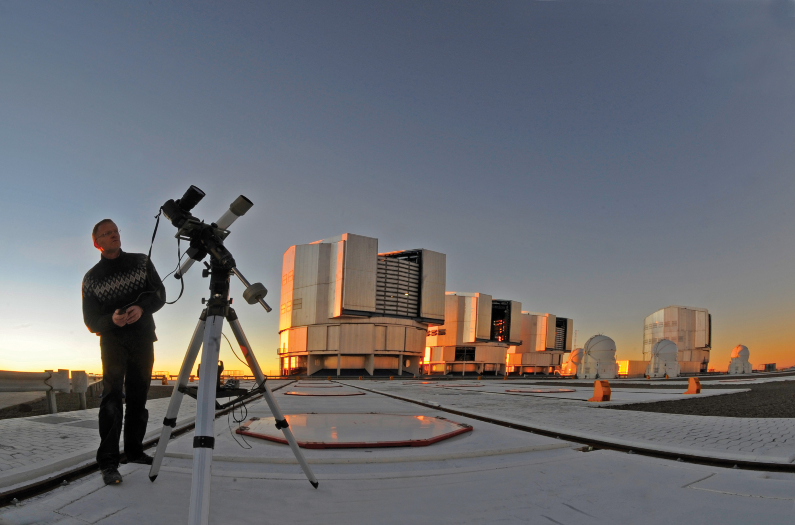 Serge Brunier